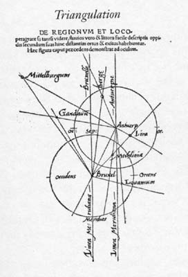 Gemma Frisius's 1533 diagram introducing the idea of triangulation into the science of surveying. Having established a baseline, eg the cities of Brussels and Antwerp, the location of other cities, eg Middelburg, can be found by taking its compass direction at each end of the baseline, and plotting where the two directions cross. Note that this was only a theoretical presentation of the concept -- because of hills etc, it is in fact actually impossible to see Middelburg from either Brussels or Antwerp! Nevertheless, the figure soon became well known all across Europe.